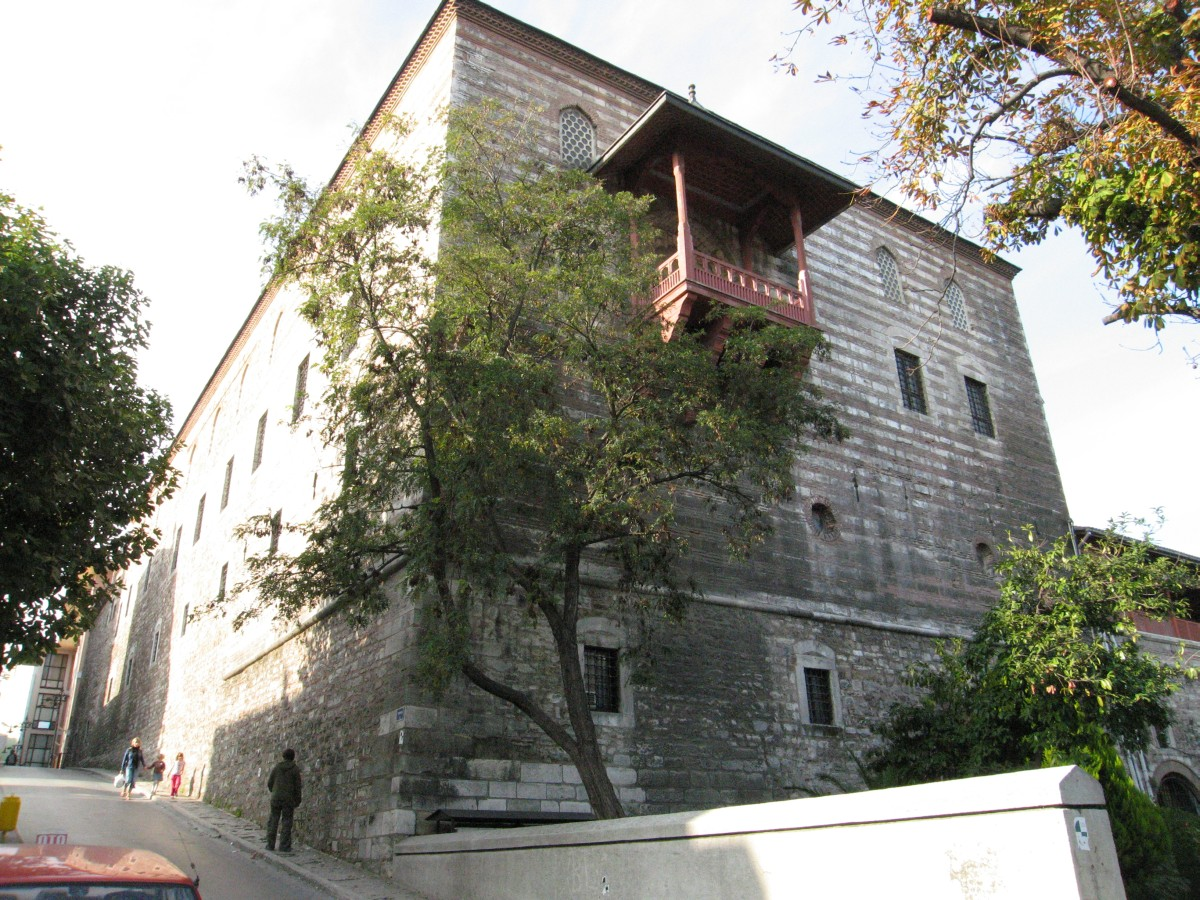 Main building of Turkish and Islamic Arts Museum, Istanbul, Turkey.